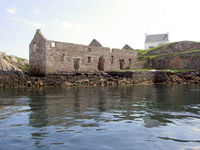 Remains of Conyngham's fishing complex on Rutland Island In the 18th century, William Burton Conyngham (a local landowner) decided on a business venture to build a fishing station on Rutland Island to exploit the large herring shoals then running off the coast. This 'new town', with streets, houses, pub, post office etc was purpose built between 1785-1788. Unfortunately, the herring disappeared very early in the 1800's and the station fell into dis-use. The photo shows some of the remains of the factory and landing stage on Rutland Island. Most of the other remains are now covered by sand dunes.